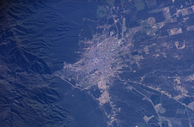 The city of La Rioja, Argentina, photographed from the ISS. Picture has been enhanced for contrast.